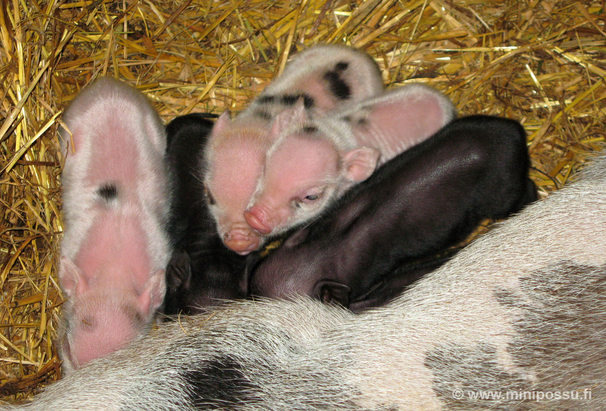 Minipig (not the same as Potbelly pigs) pigglets.